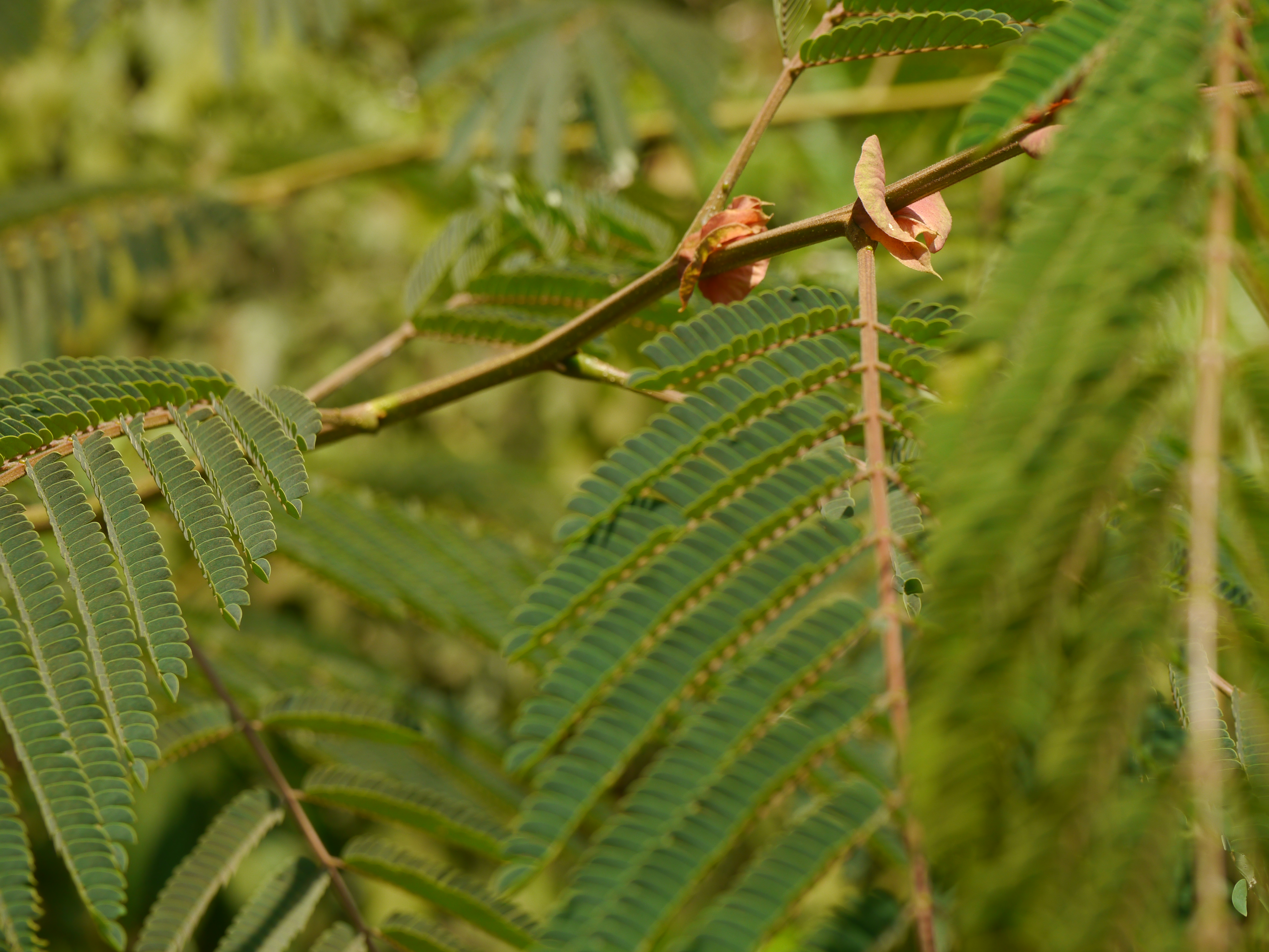 Albizia chinensis leaves - ഈയൽവാകയുടെ ഇലകൾ